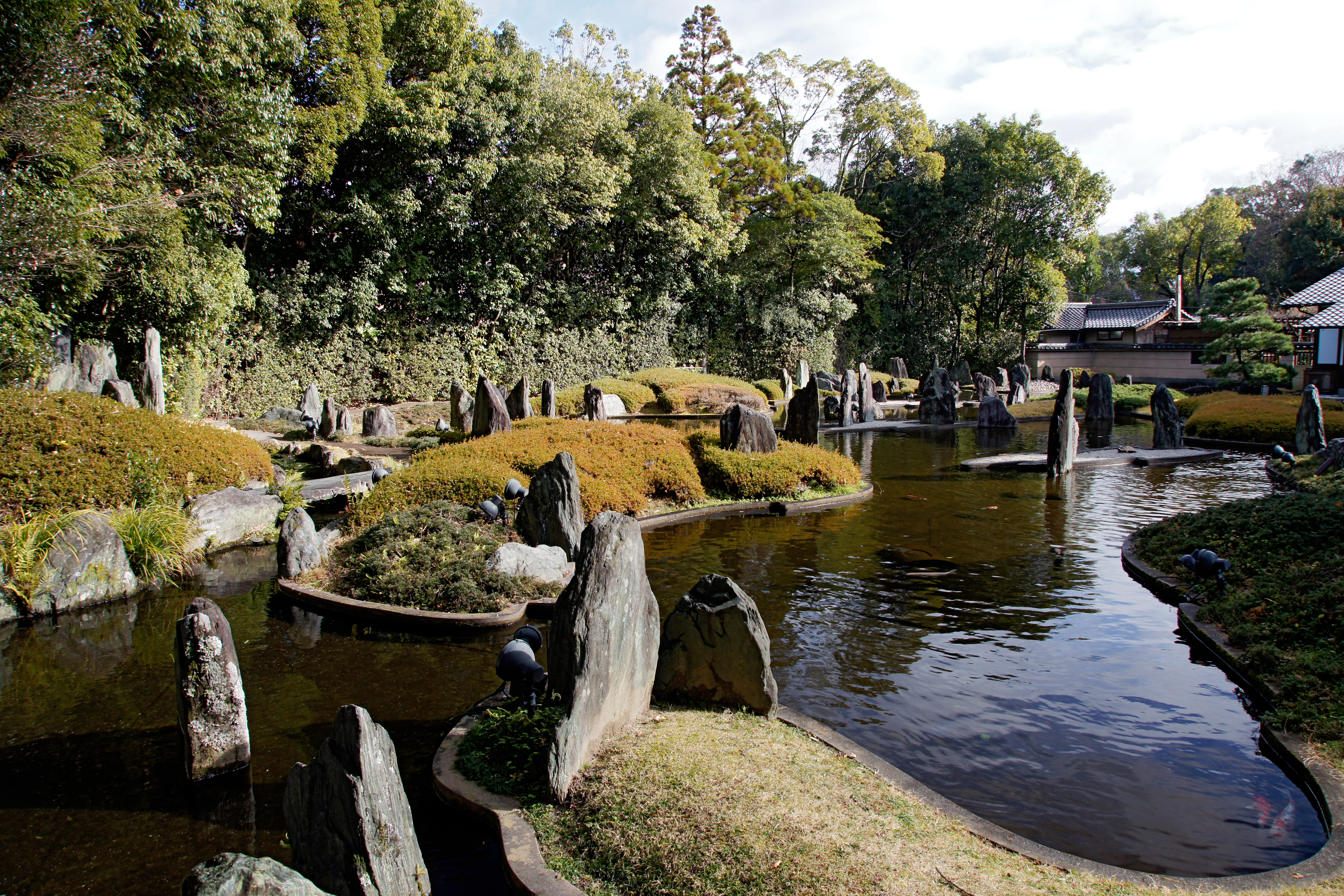 Shofuen gardens of Matsunoo-taisha in Kyoto, Kyoto prefecture, Japan.